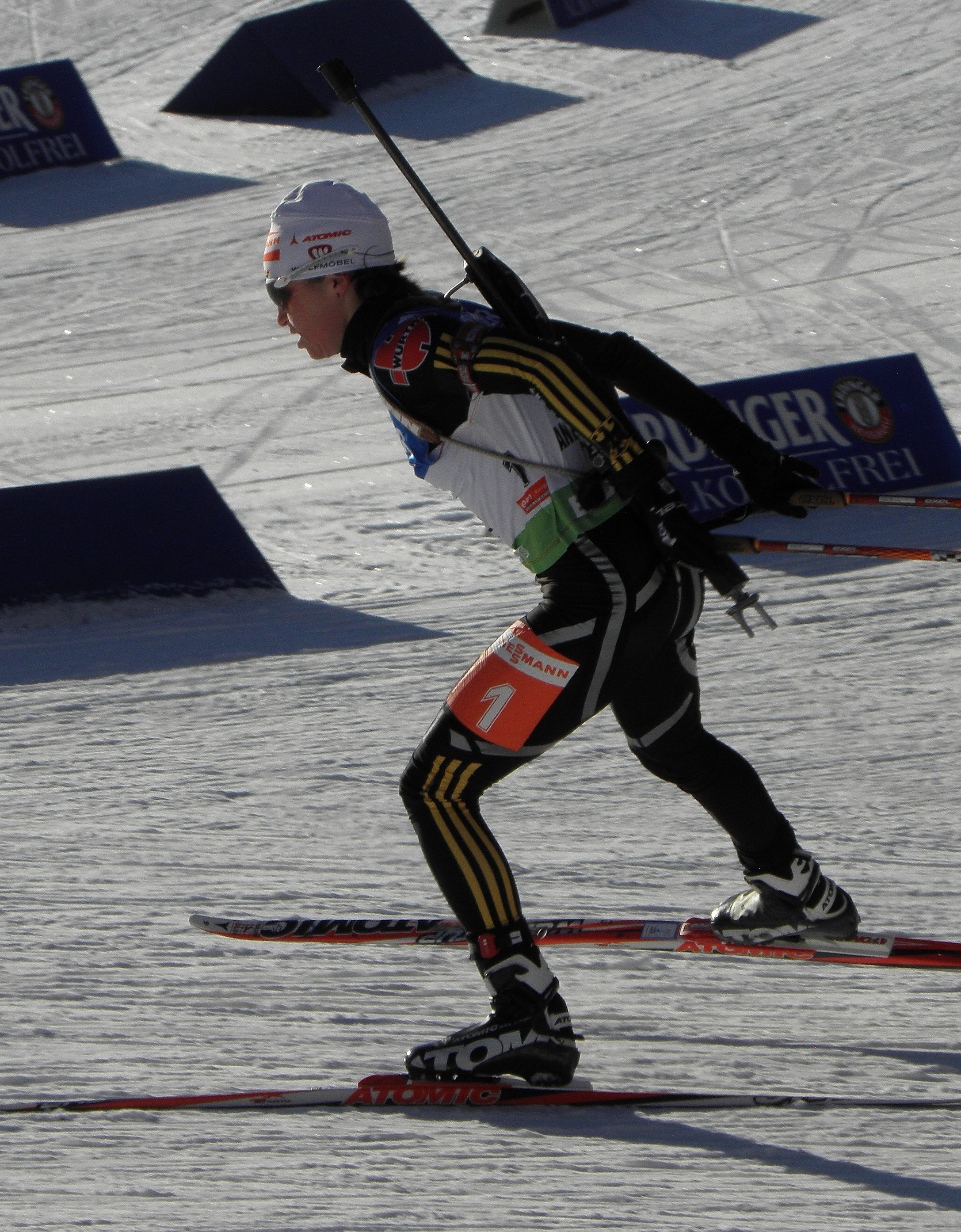 Andrea Henkel in Antholz, 20-01-2010